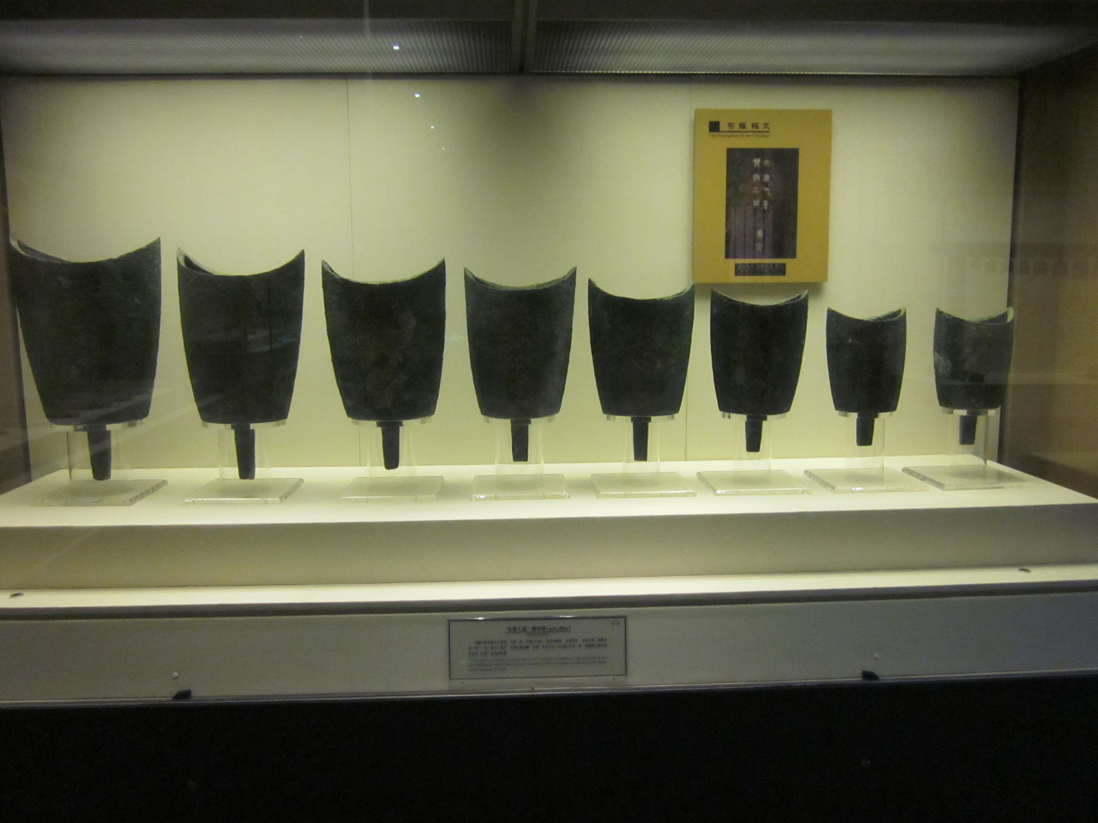 Museum of the Tomb of the King of Southern Yue in Western Han Dynasty